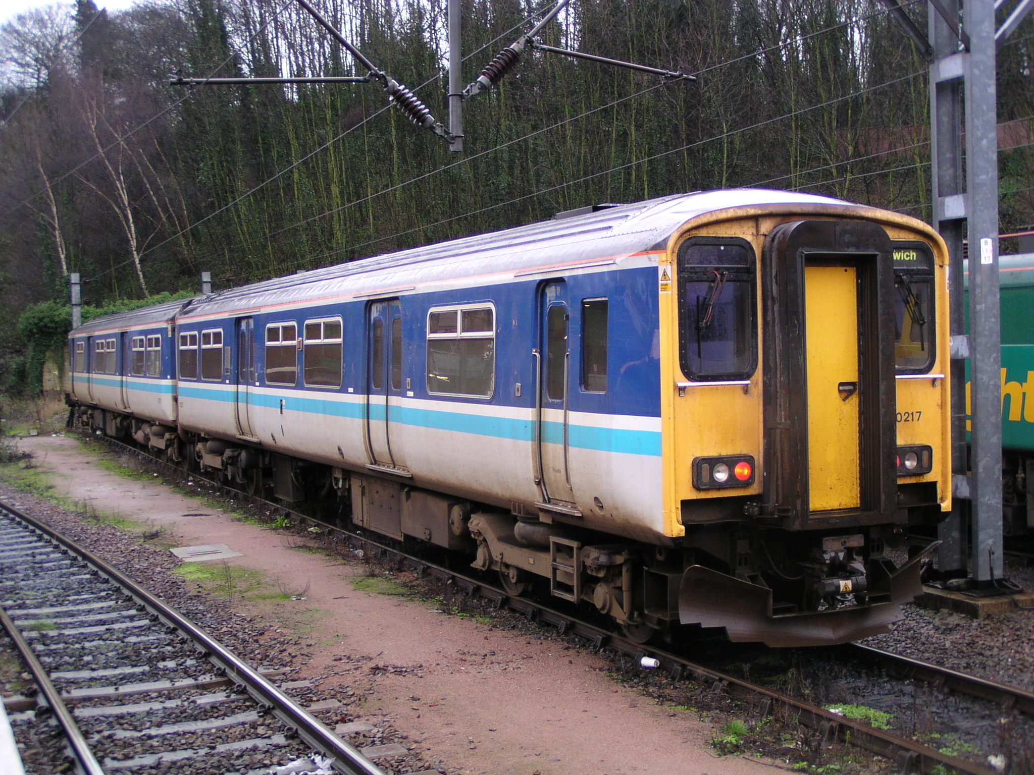 BR Class 150/2, no. 150217 "Oliver Cromwell" stabled at Ipswich on 31st January 2004. This unit was the last to carry original Provincial livery, before it was repainted into Anglia Railways turquoise livery in March 2004. This unit is now operated by Arriva Trains Wales.